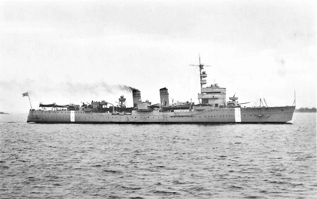 Postcard picture of the Swedish cruiser HMS Fylgia.